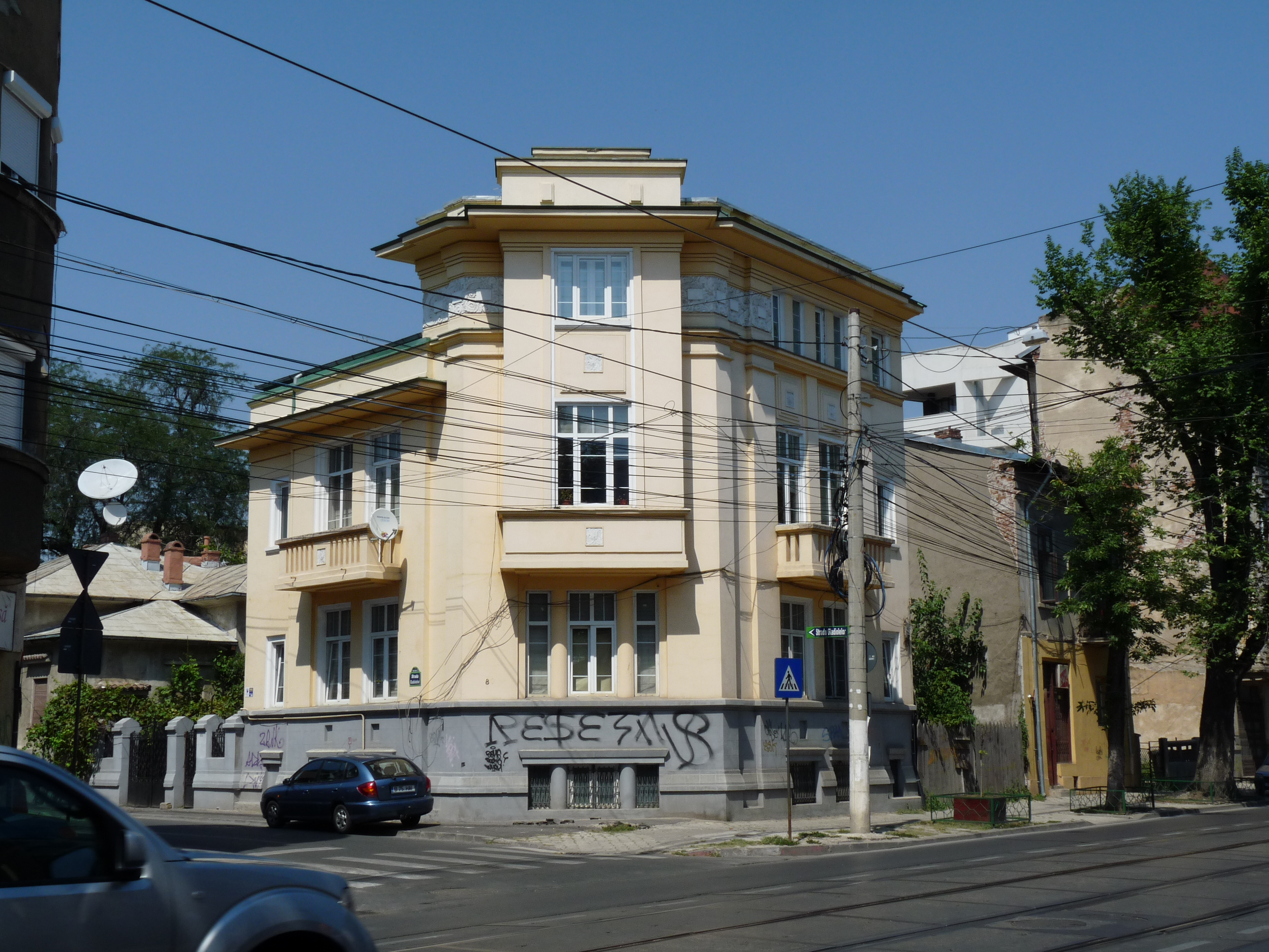 Historic building in Bucharest, Romania, on Regina Maria boulevard 80